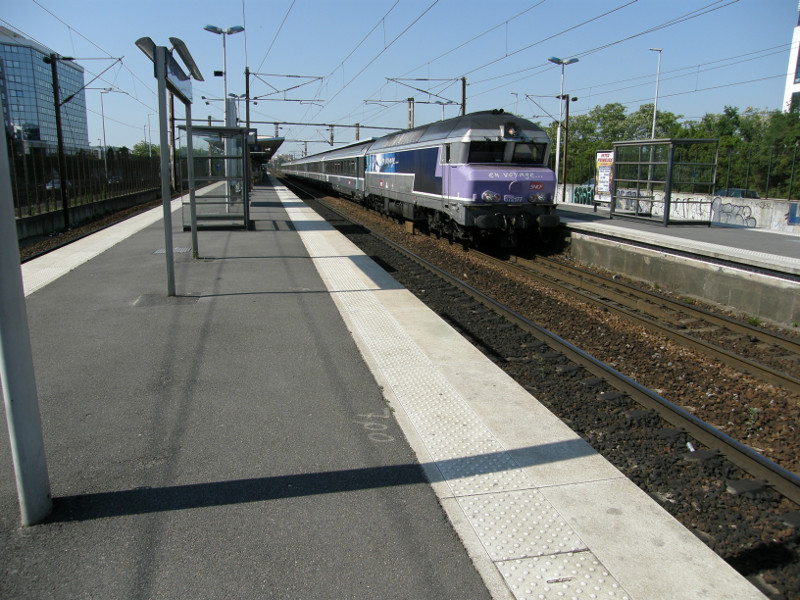 CC 72177 traversant Val-de-Fontenay (24 mai 2010) Elle assure le train Corail Intercités 1047 pour Mulhouse.